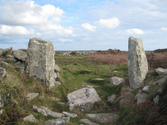 Chûn Castle The entrance to this well-preserved hill fort. On the skyline can just be seen the engine house at Ding Dong Mine. More information and an excellent aerial photo here